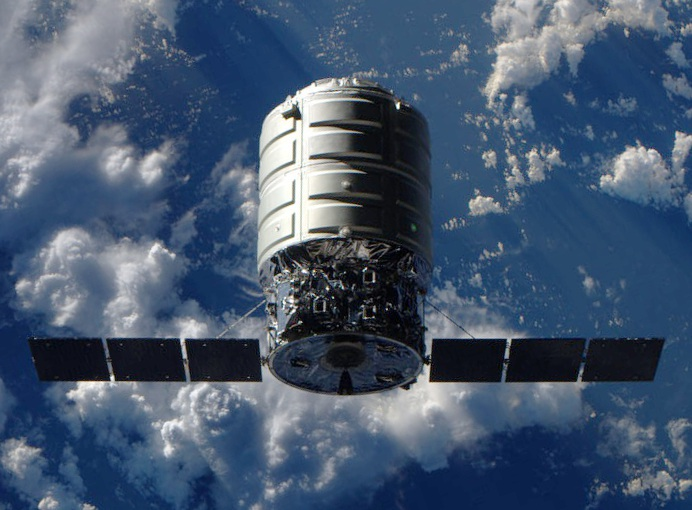 The Expedition 37 crew captured Cygnus with the Canadarm2 at 7 a.m. EDT Sunday, Sept. 29, 2013, and attached it to the Harmony node at 8:44 a.m.